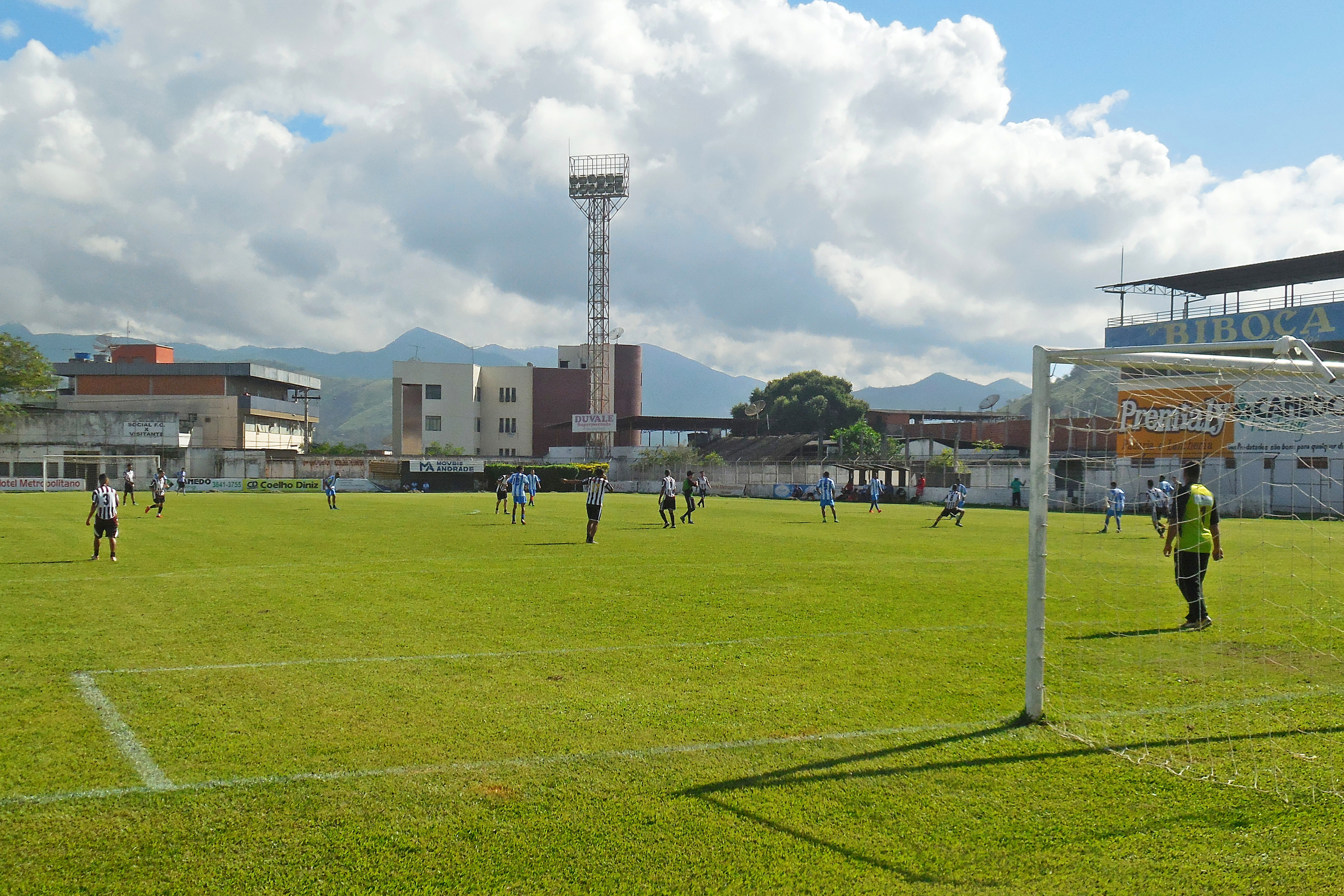 Amateur soccer match in the Louis Ensch Stadium, in Coronel Fabriciano, Minas Gerais, Brazil.